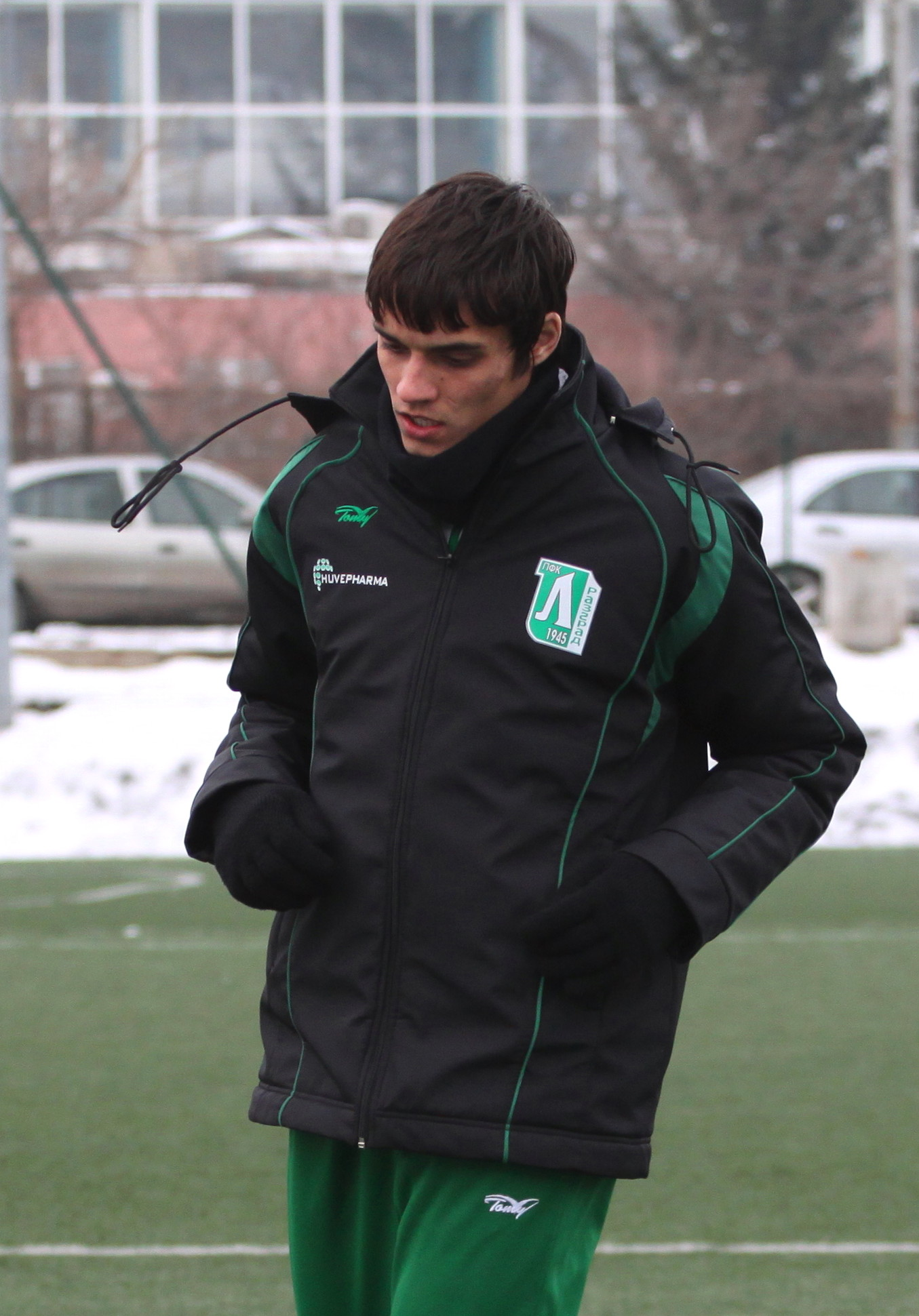 Atanas Kurdov (Bulgarian: Атанас Курвов) (born on 28 September 1988) is a Bulgarian footballer currently playing for Ludogorets Razgrad.